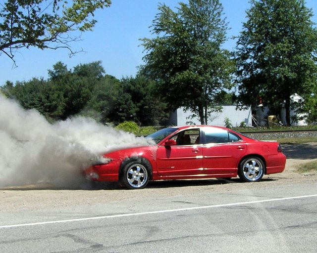 a burning car we saw on SR-15 on the way home from Goshen